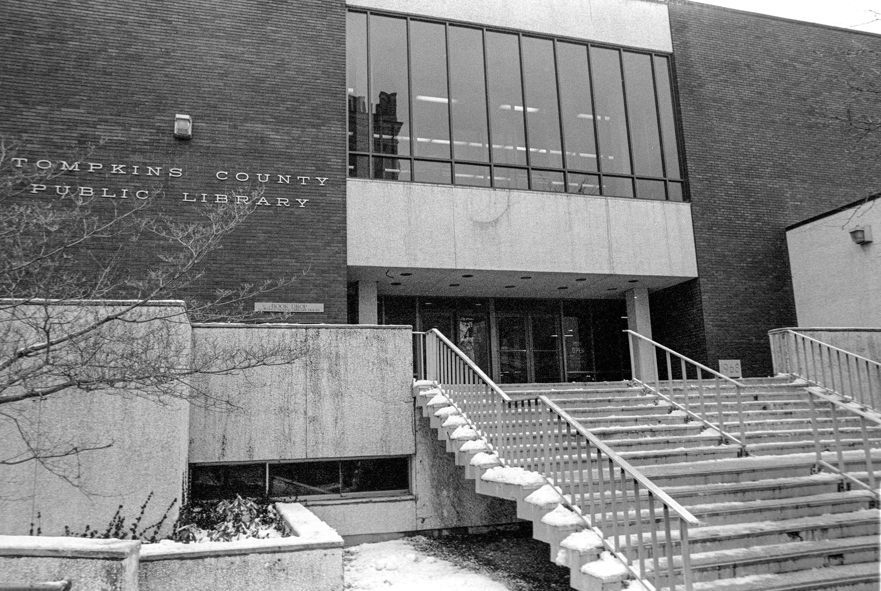 The old building of the Tompkins County Public Library at 312 N. Cayuga Street, Ithaca NY. The library was located here from 1969 to 2000. Photo taken in 1987.